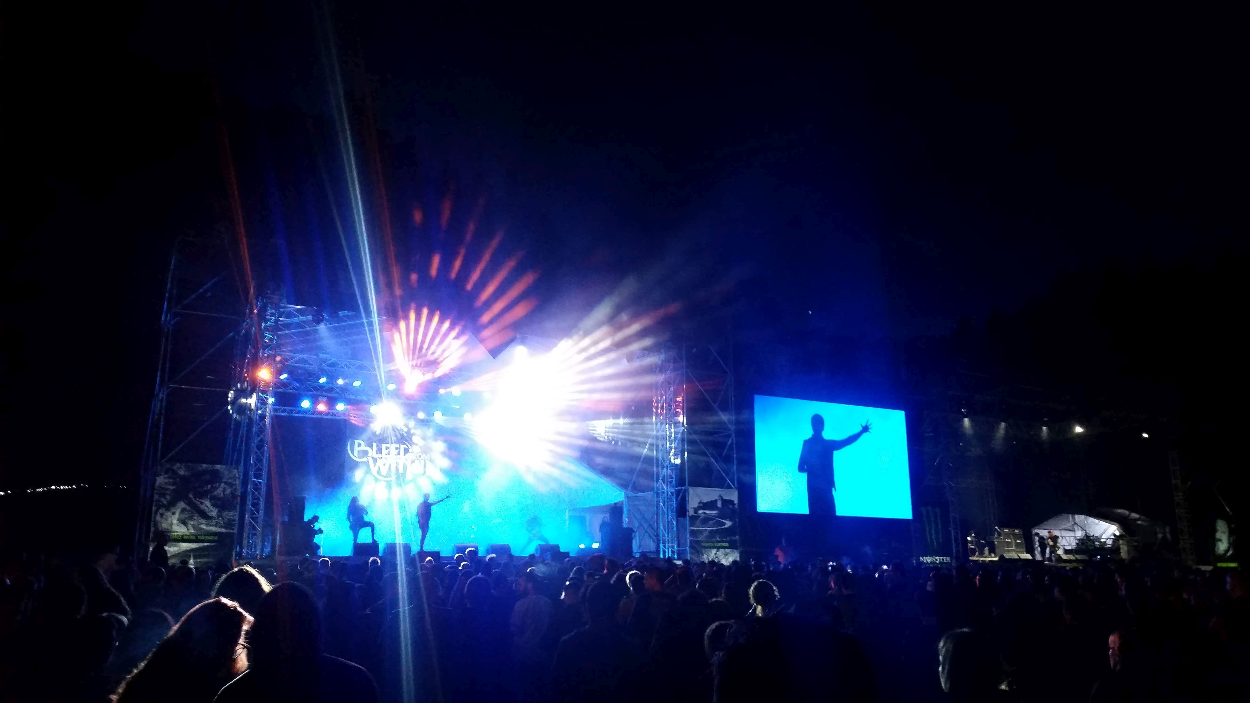 Bleed from Within live at Rockstadt 2019 in Râșnov, Romania, on 01 August 2019